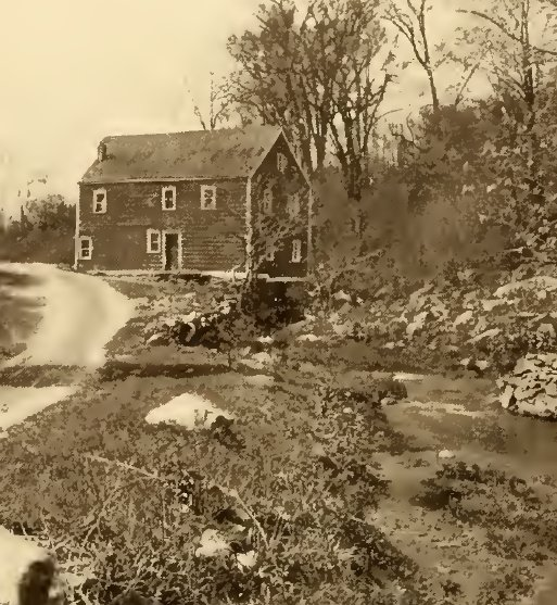 Fredericksburgh gristmill in Kent, New York Built by Henry Ludington about 1776.